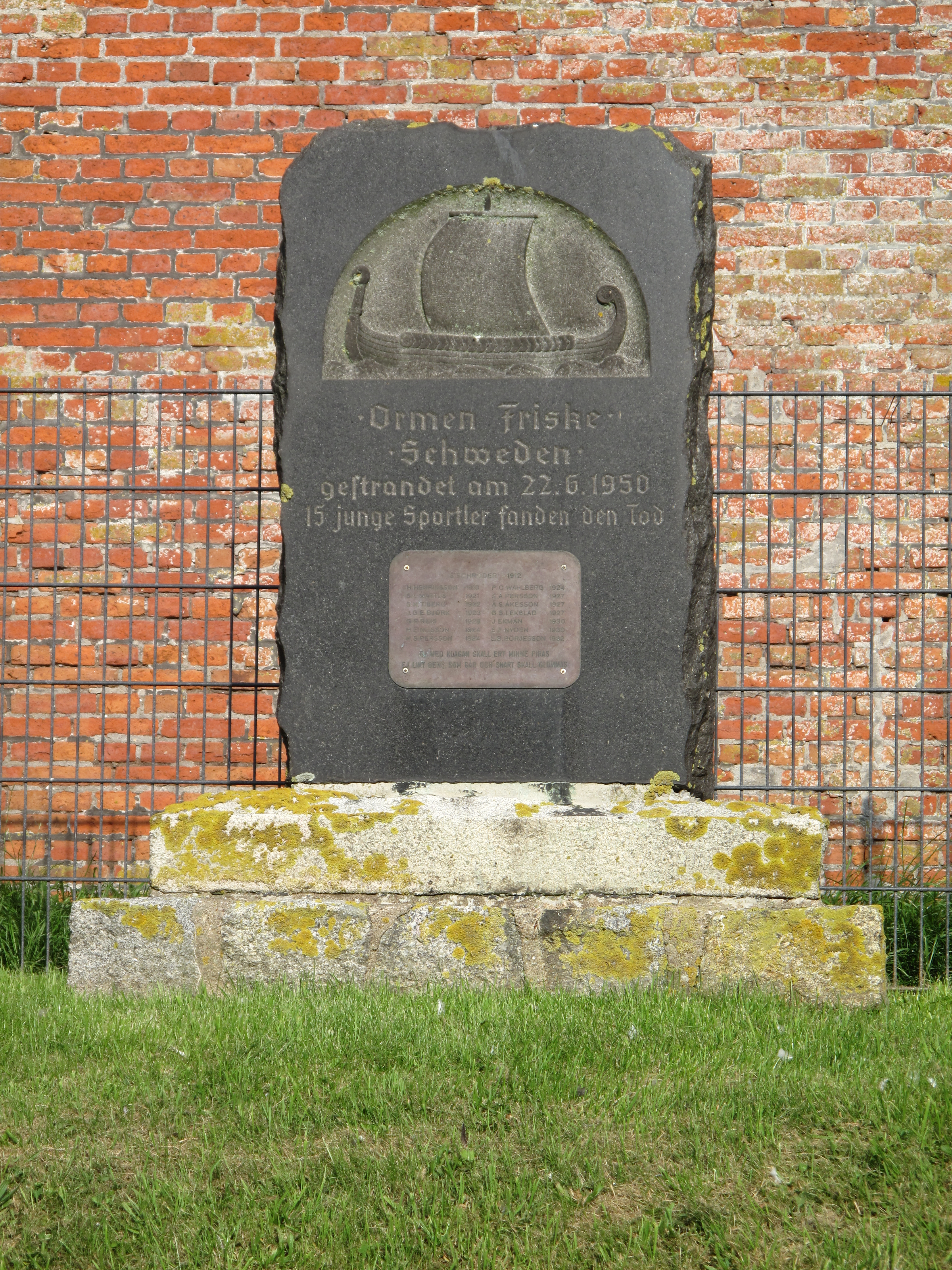 Memorial stone dedicated to the crew of the "Ormen Friske", near the "Old Church" at Pellworm, Germany